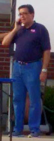 Kentucky State Representative Brent Yonts at an event in 2015